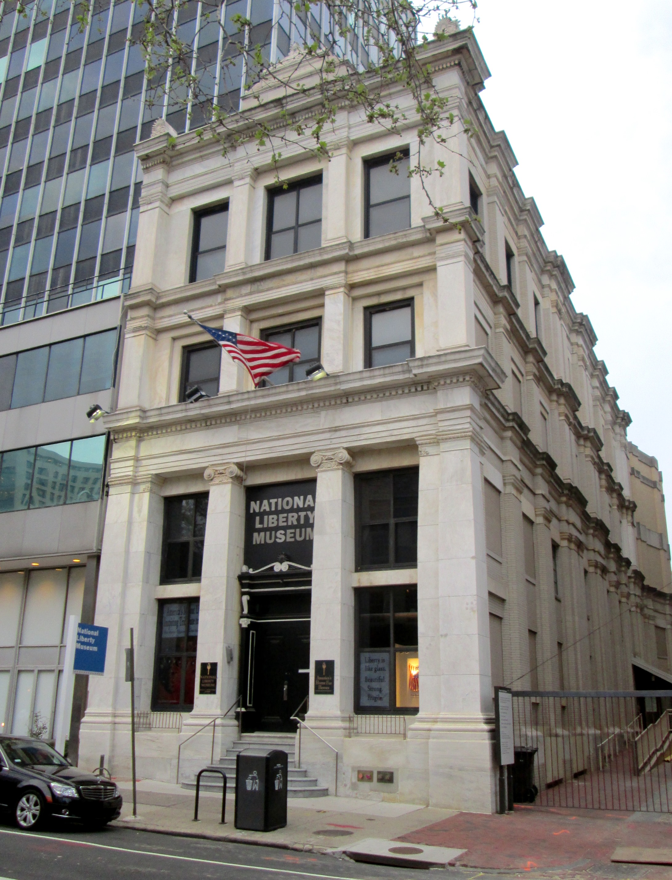 The Philadelphia National Bank Building at 321-323 Chestnut Street between S. 3rd and S. 4th Street in the Old City neighborhood of Philadelphia was built in 1898 and was designed by Theophilus Chandler. It was part of Philadelphia's Bank Row. In 1974, it became home to the Philadelphia Maritime Museum, which has since moved east to Penn's Landing and been renamed Independence Seaport Museum. Today, the building houses the National Liberty Museum. (Sources: Philadelphia Architecture: A Guide to the City' (2nd ed.) and Architecture in Philadelphia: A Guide)